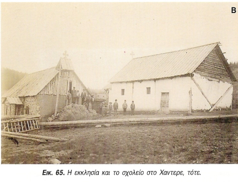 Xantere village church and school, circa 1890